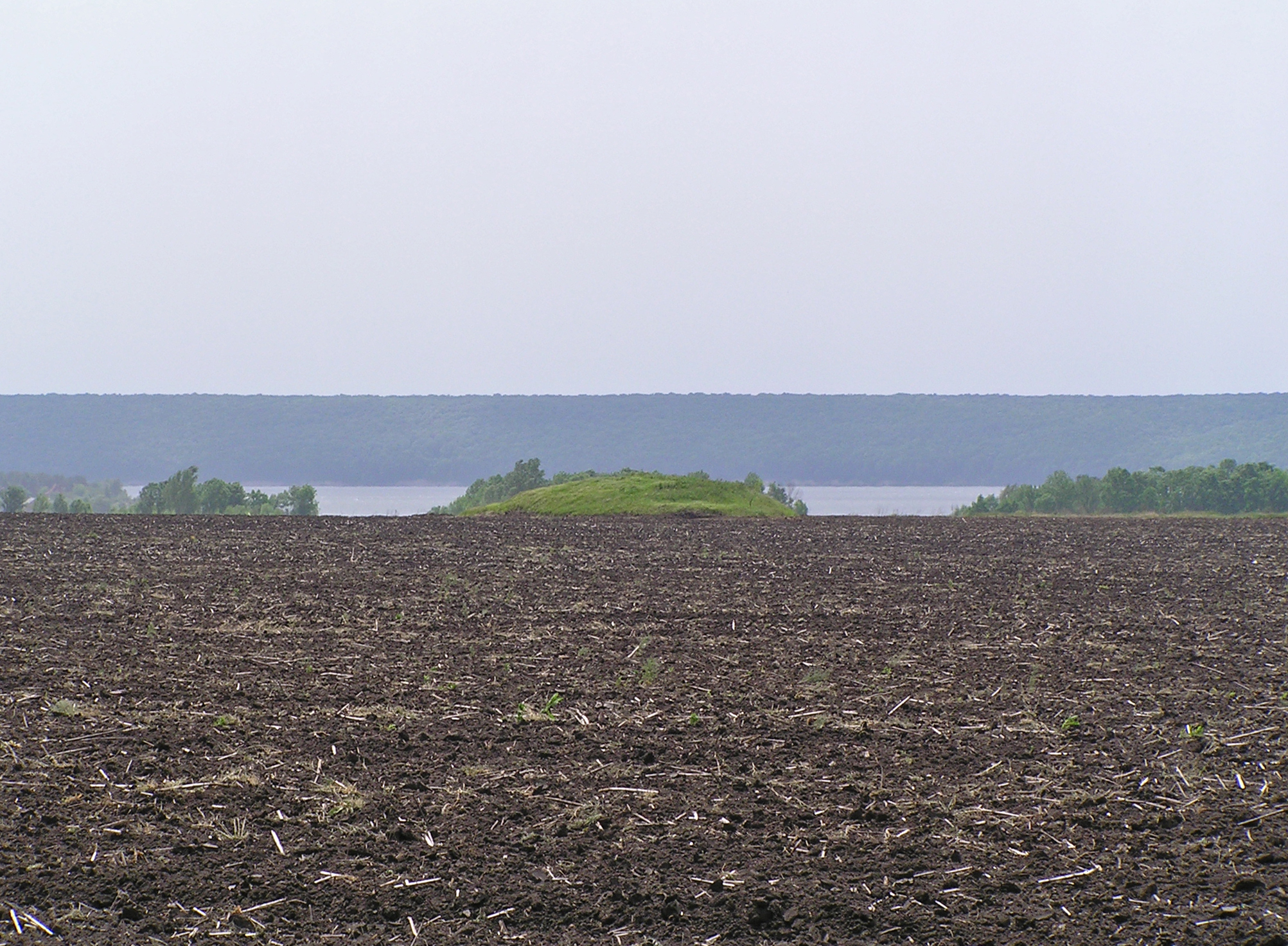 Кургани III тис. до н.е. – I тис. н.е. біля с.Мартове Печенізького р-ну Харківської обл.